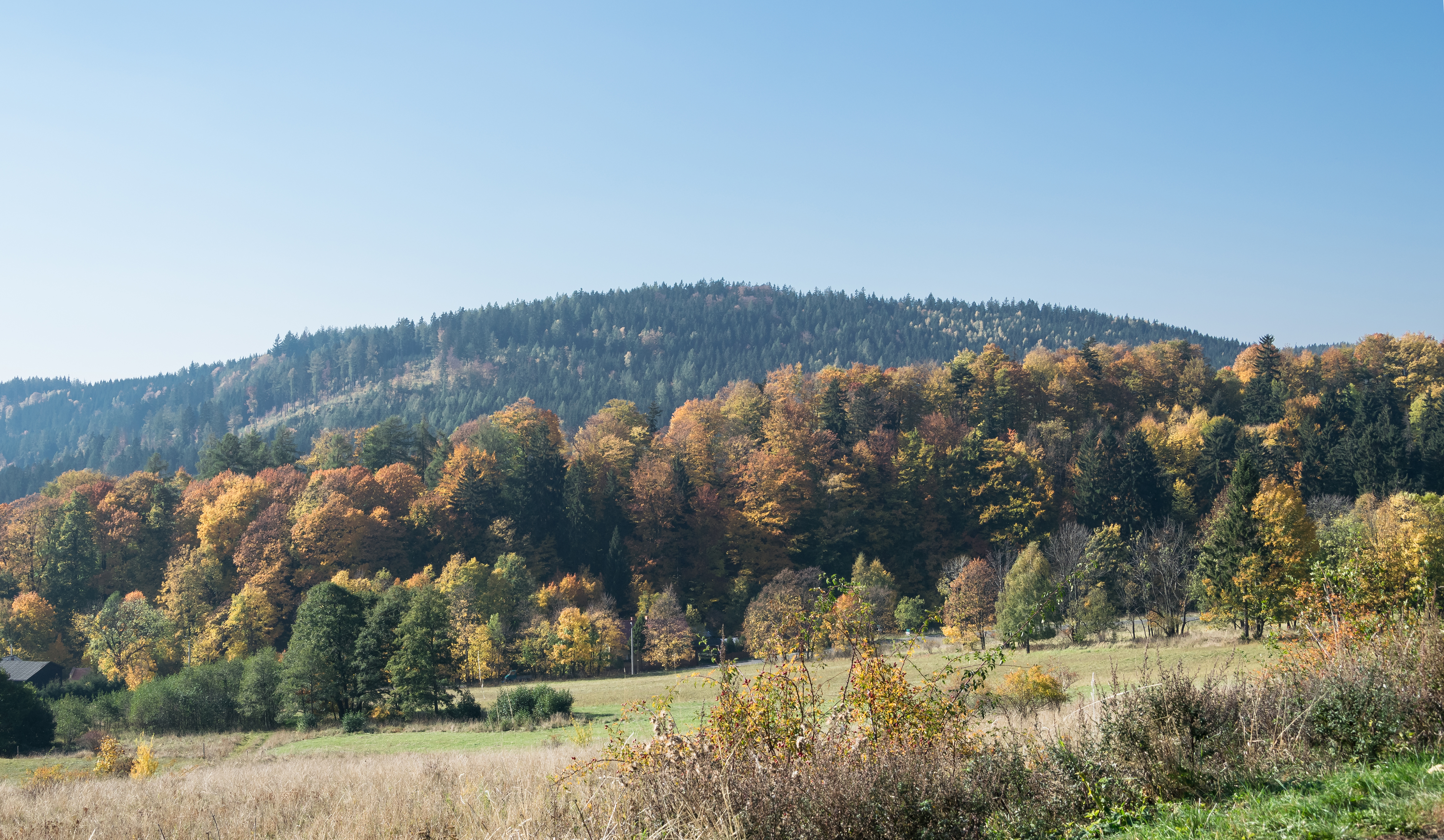 Gontowa, Góry Sowie, Sudetes